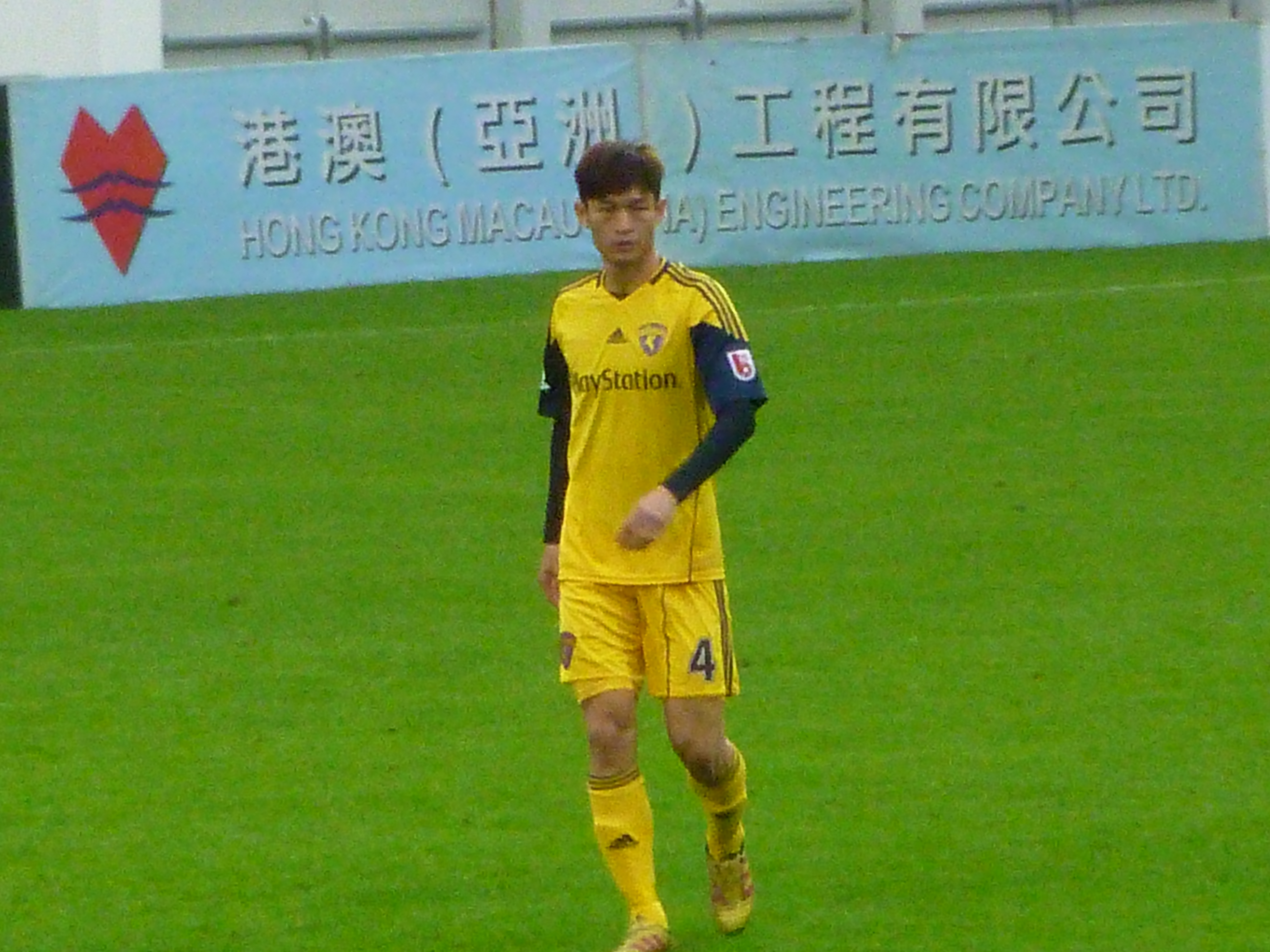 Deng Jinghuang (25 Feb 2012 Hong Kong League Cup quarter final, TSW Pegasus vs Sham Shui Po, Mong Kok Stadium)